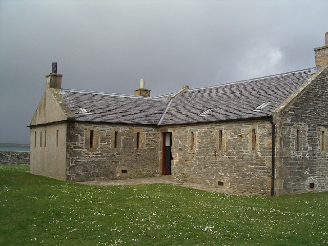 The barracks at Hackness Battery. The battery was built during the Napoleonic Wars to defend the Pentland Firth. It is now in the care of Historic Scotland and fitted out as it would have been when in use.